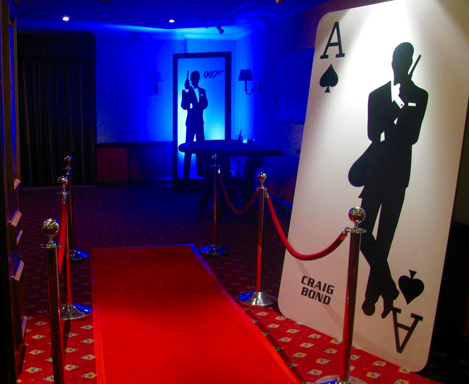 Giant Playing Card 007, James Bond